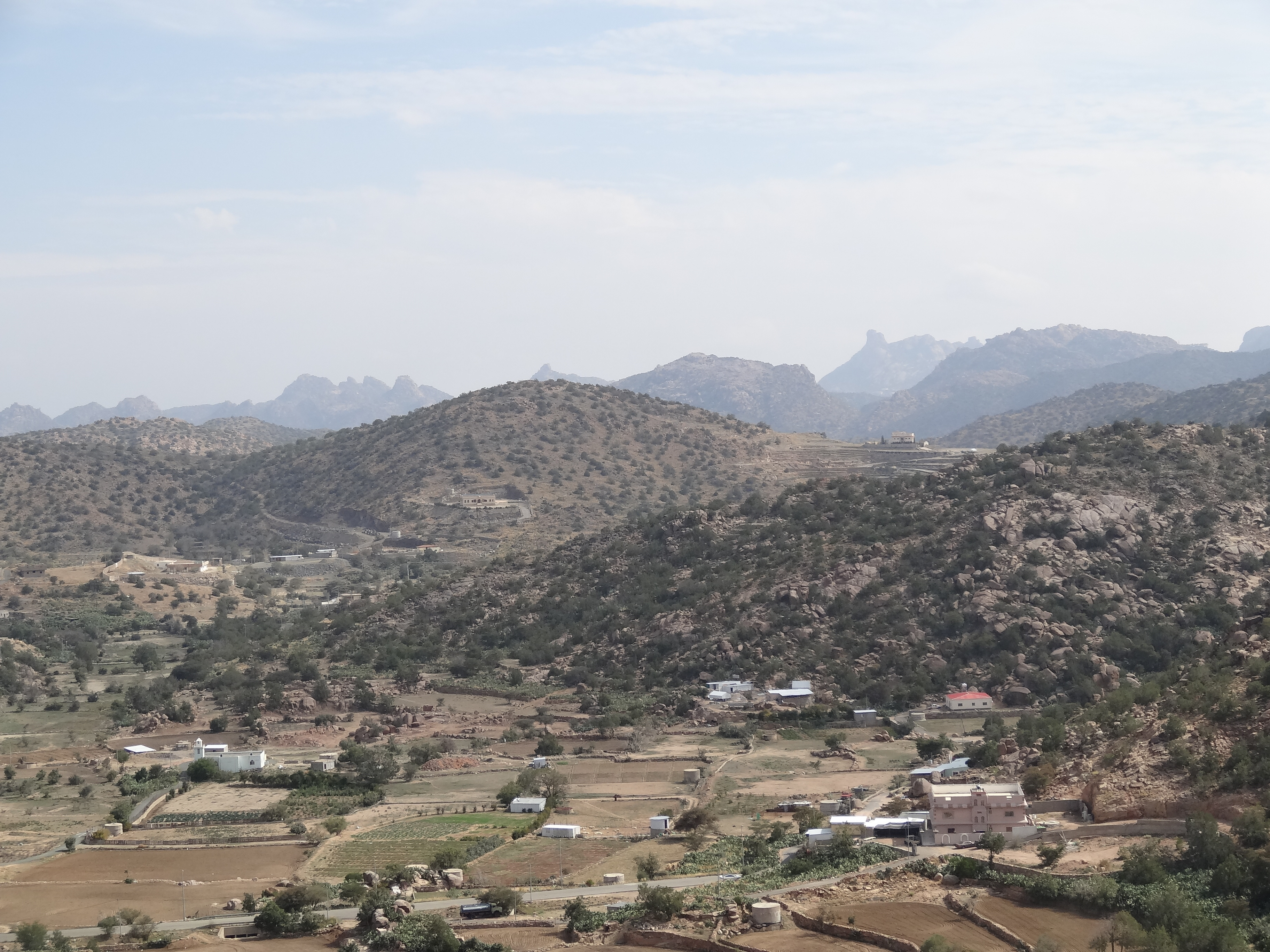 Picture of mountains in Taif city